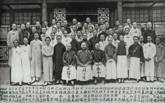 Boxer Rebellion Indemnity Scholarship recipients of 1909